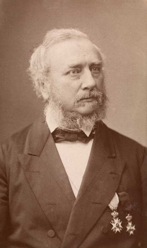 Norwegian professor of law Fredrik Peter Brandt (1825–1891), photo from 1880